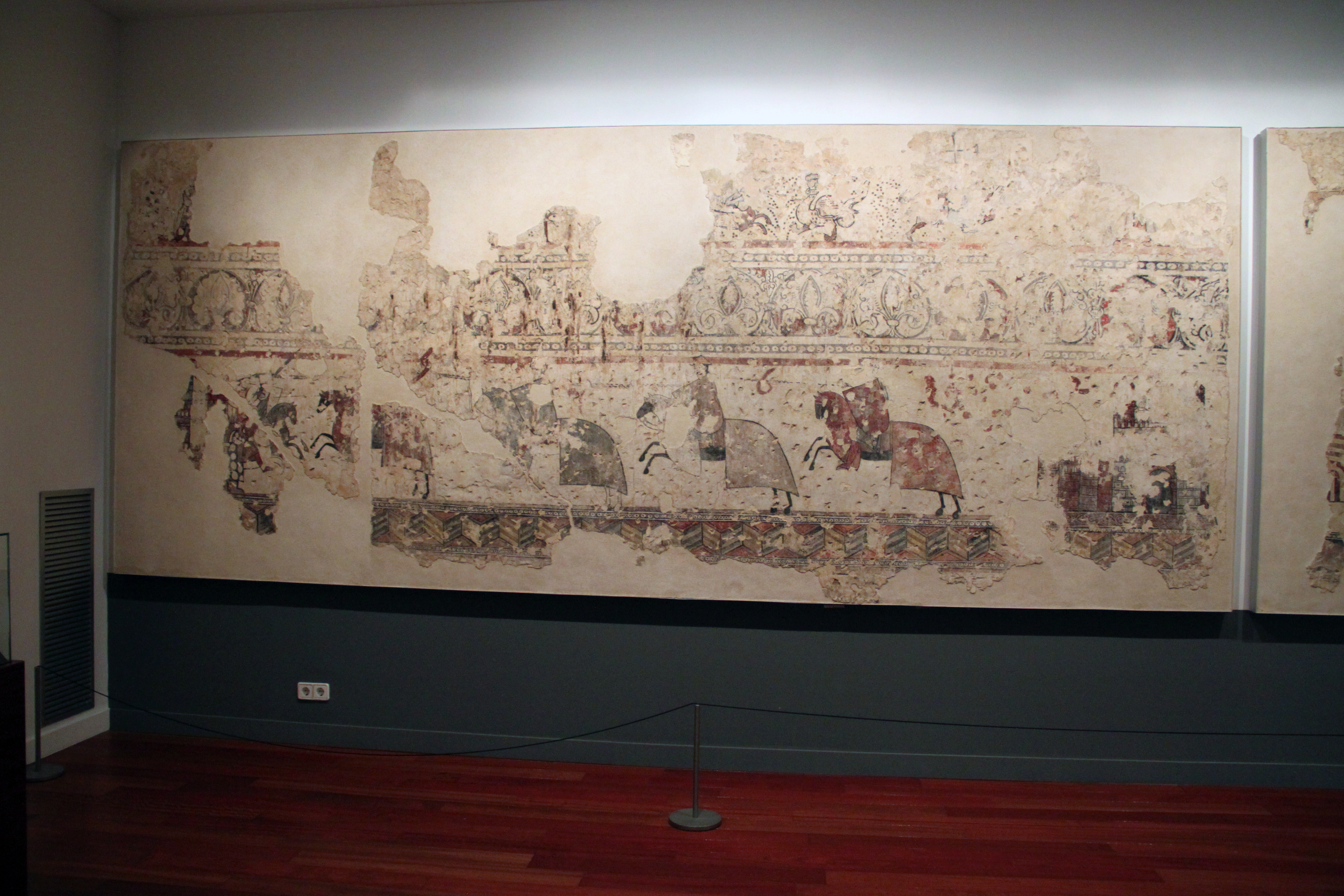 Mural paintings from late XIII century or early XIV century, Museum of History of Barcelona